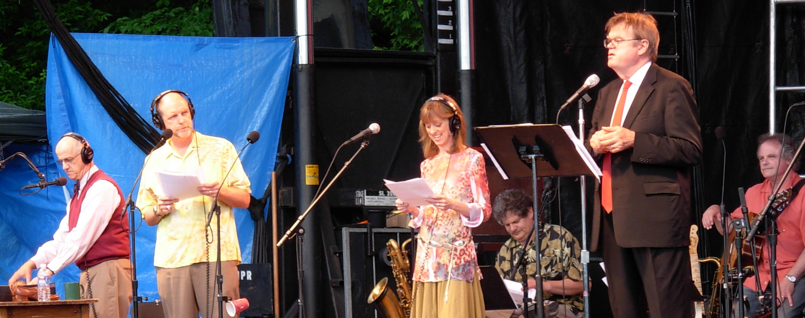 Garrison Keillor and cast of A Prairie Home Companion radio show performing in Lanesboro, Minnesota.